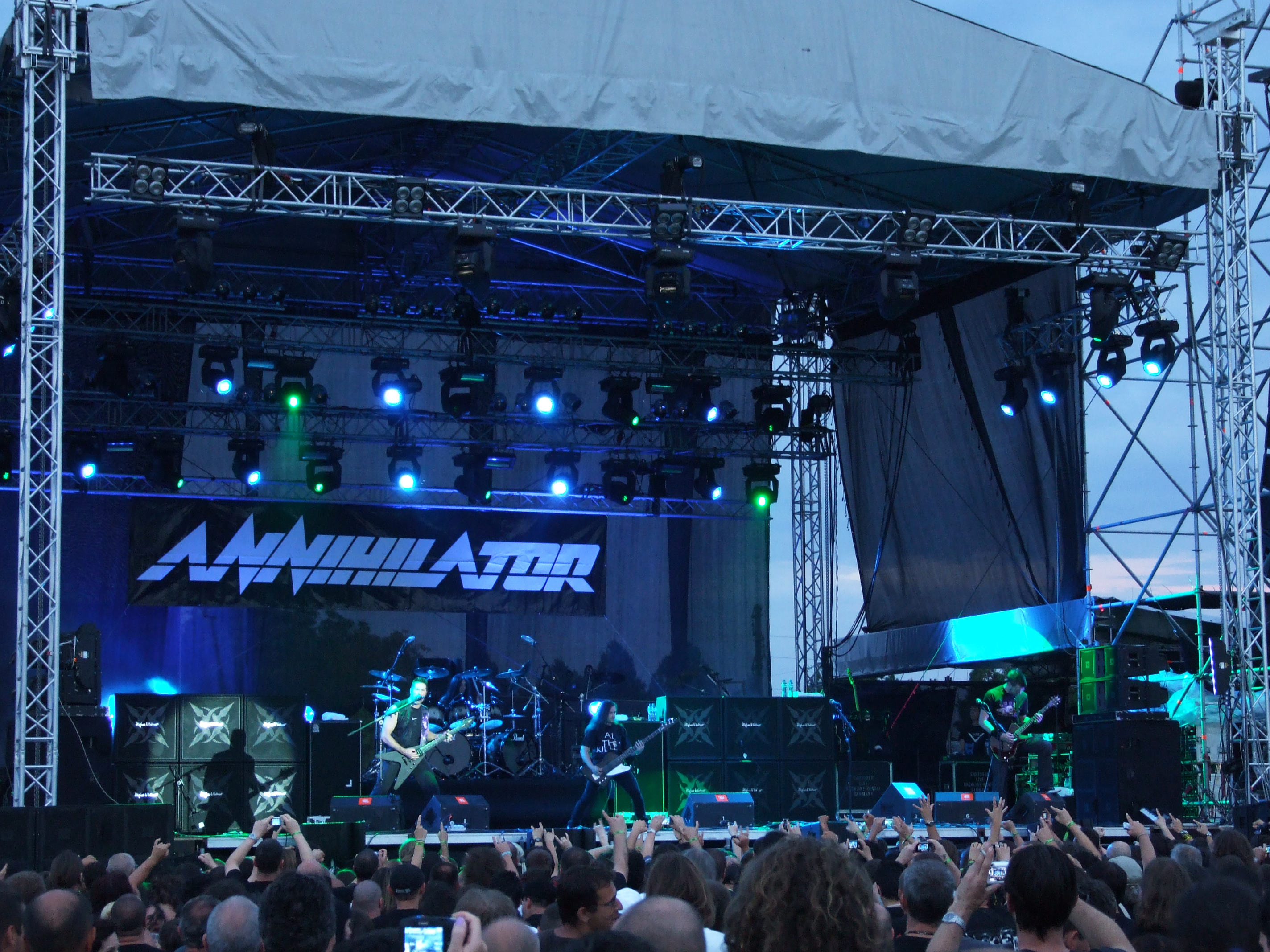 Annihilator at Kavarna Rock Fest - 25 July 2010 - Kavarna, Bulgaria